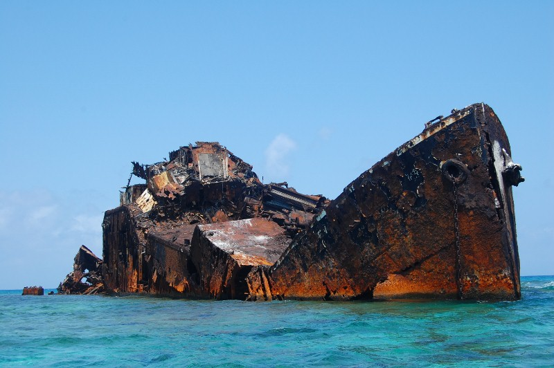 Shipwreck of the SS Richmond P. Hobson on Hogsty Reef, Southern Bahamas. April 2010. The ship ran aground on 17 July 1963, registered as the Yogoslav Trebisnjica.